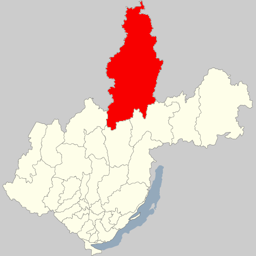 Map of Irkutsk Oblast and Ust-Orda Buryat Okrug, Russian Federation.